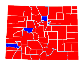 County results map of Colorado senate election, 1998